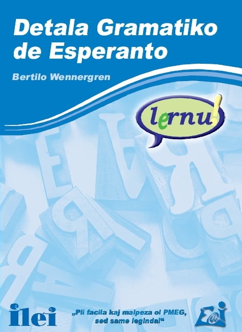 Cover of the "Detala gramatiko de Esperanto" book by E@I (2010).